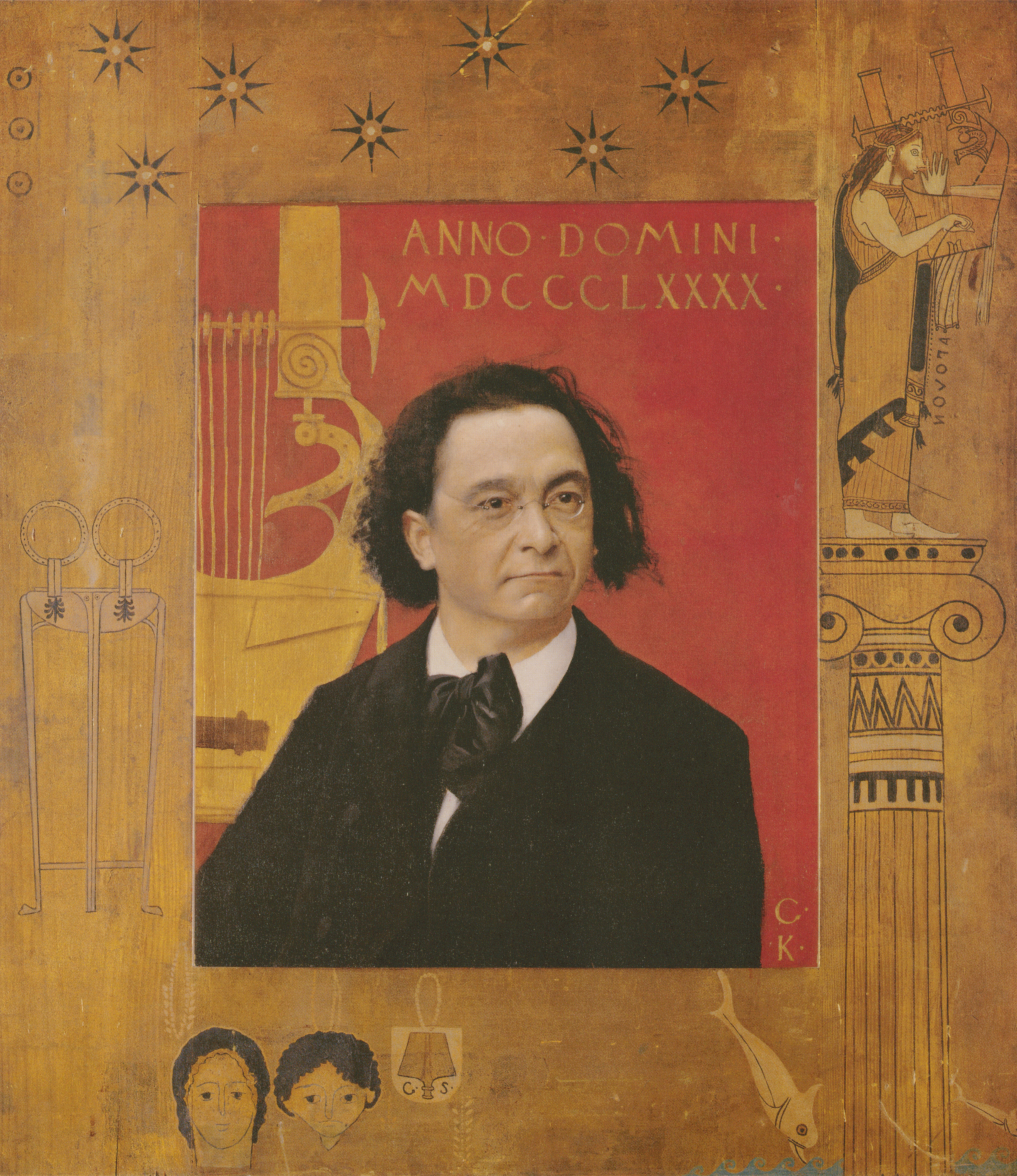 This is a high resolution scan of Portrait of Josef Pembaur by Gustav Klimt. Klimt was one of the foremost leaders of the Art Nouveau movement.